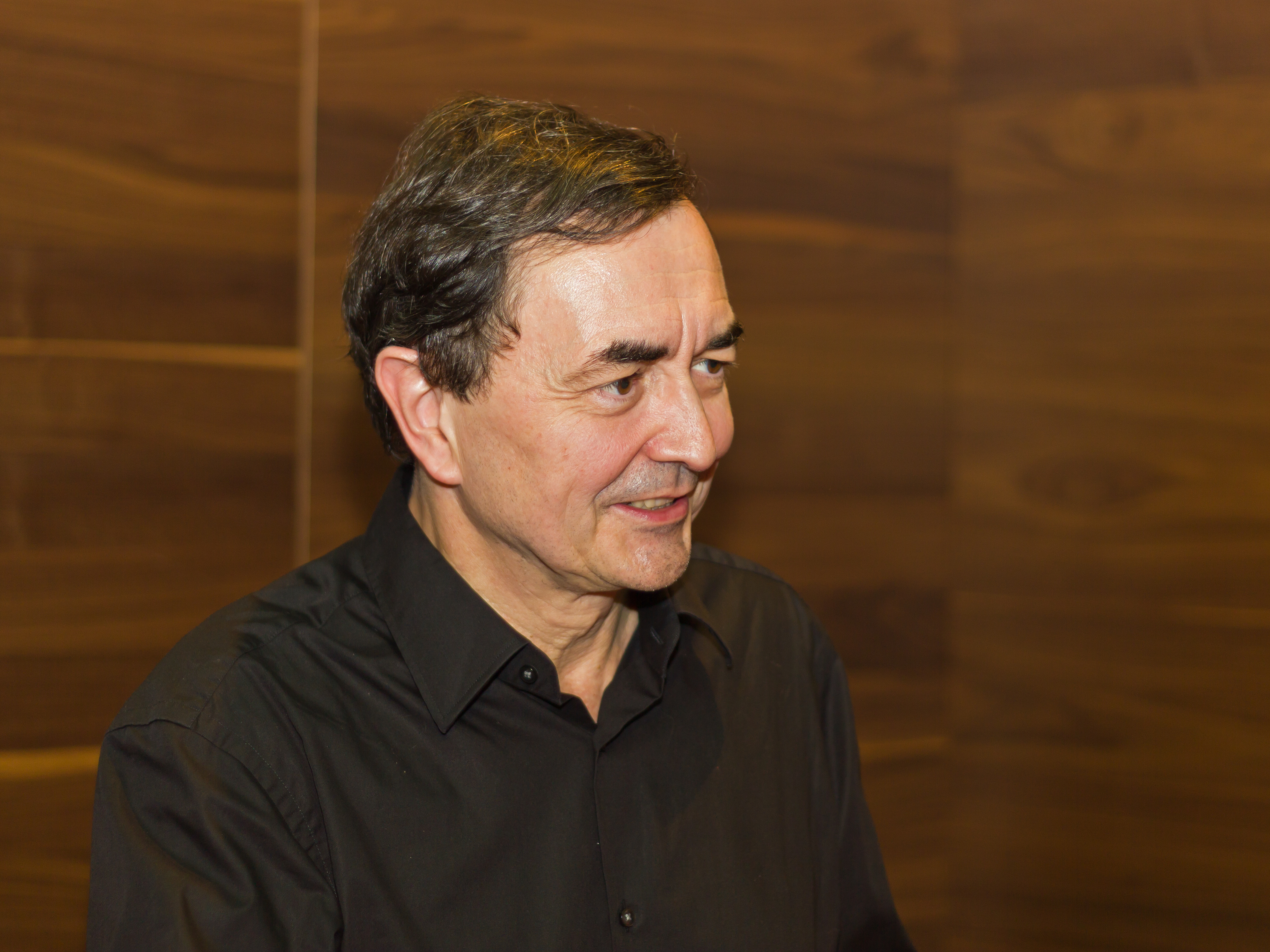 Pierre-Laurent Aimard is a pianist from France; photo taken in Berlin